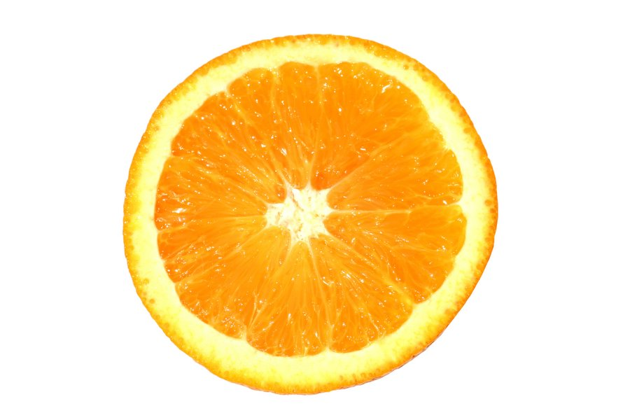 Orange Slice